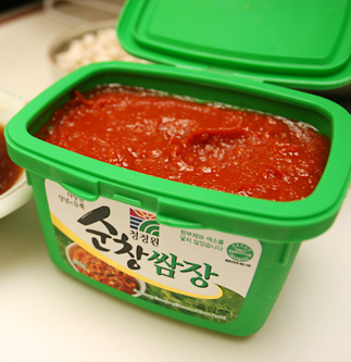 Samjang, dipping sauce for Korean BBQ